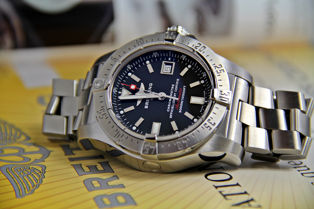 The Breitling Avenger Seawolf is a self winding automatic Chronometer divers wrist watch with a water resistance rating down to 3000m (10,000ft). The round feature on the side of the watch case at 9 o'clock is an integrated Helium release valve.